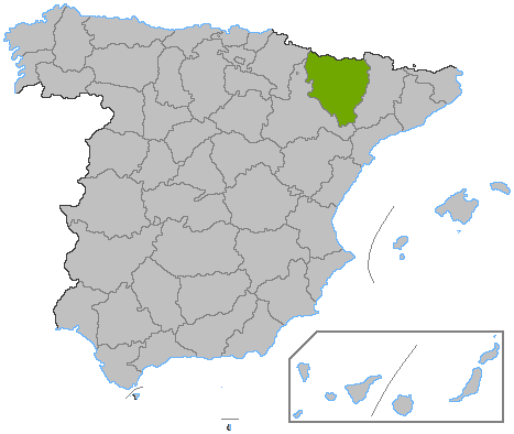 Location of the province of Huesca, in Spain. Basado en: ProvPont.jpg Source: Designed by Satesclop. Original picture, designed by Sobreira.